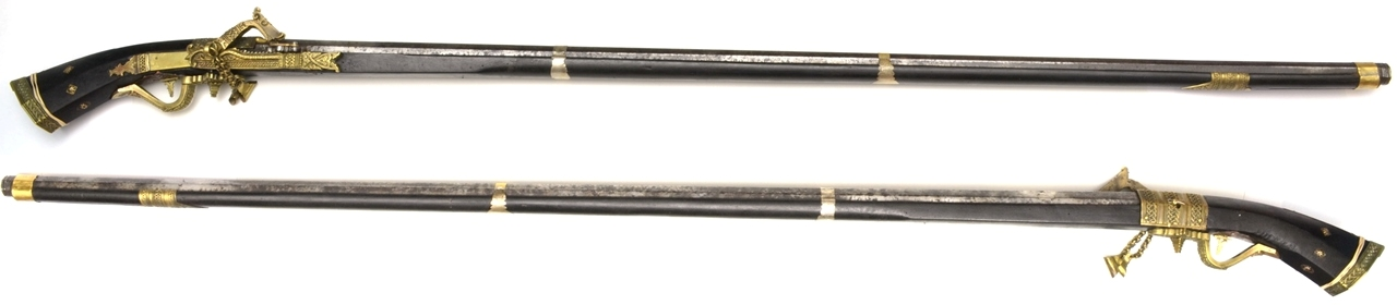 A Malay istinggar, 151 cm long. Also known as setinggar, satingar, astengger, altanggar, astinggal, and ispinggar. From the model it is from Central Sumatra. Similar weapon can be seen in